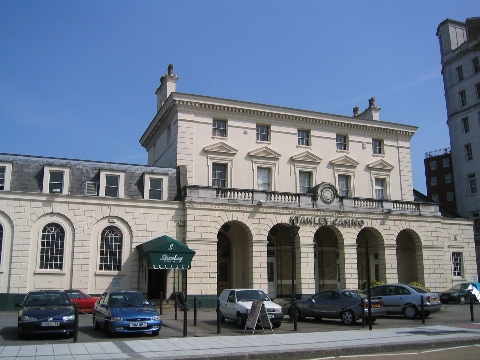 The former Southampton Terminus railway station, now a casino. Photo taken by Alan Ford 2005-06-07.